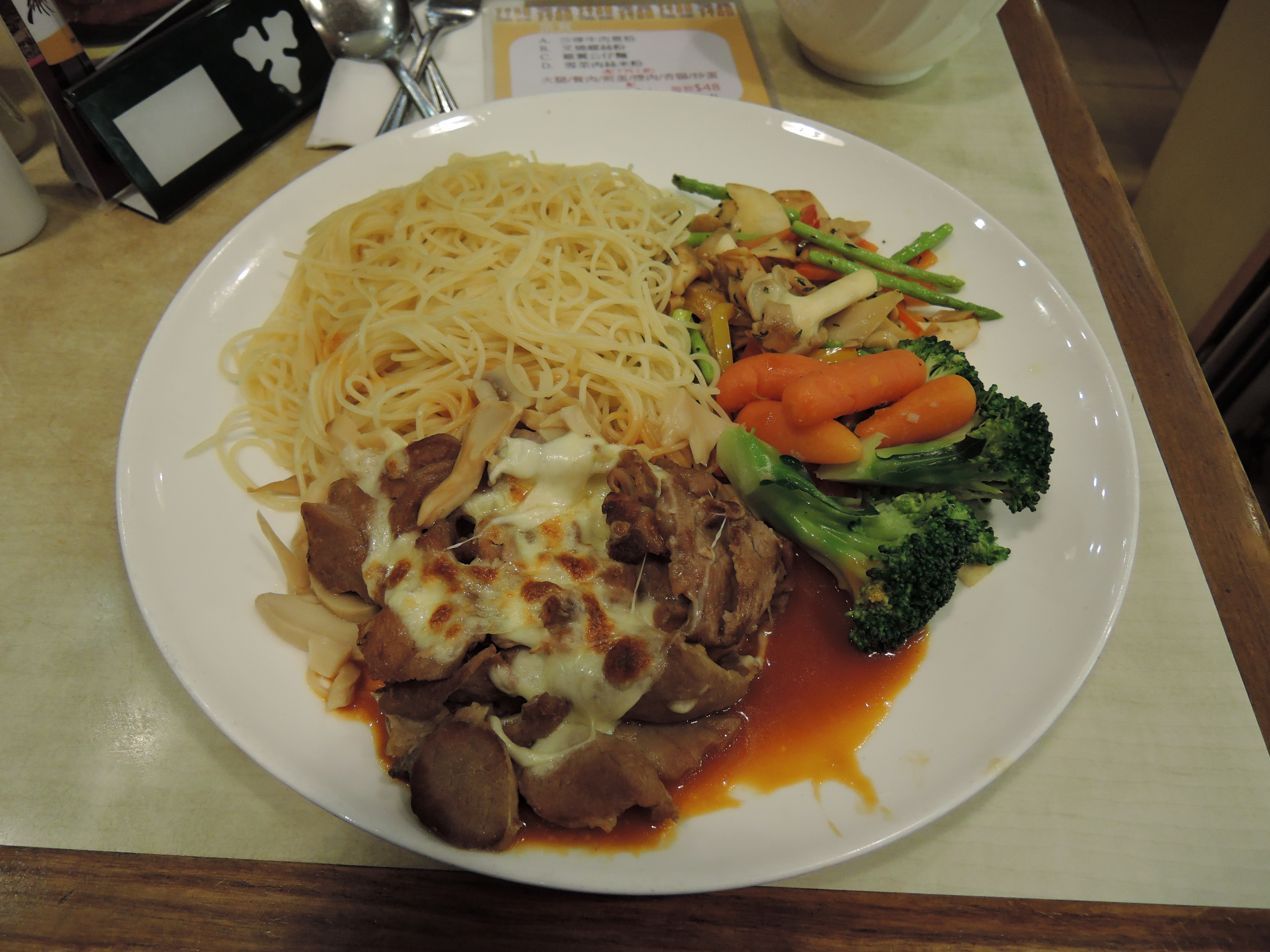 Fried beef with mixed mushroom and vegetables angel hair in lunch at local Chinese restaurant in building of mongkok